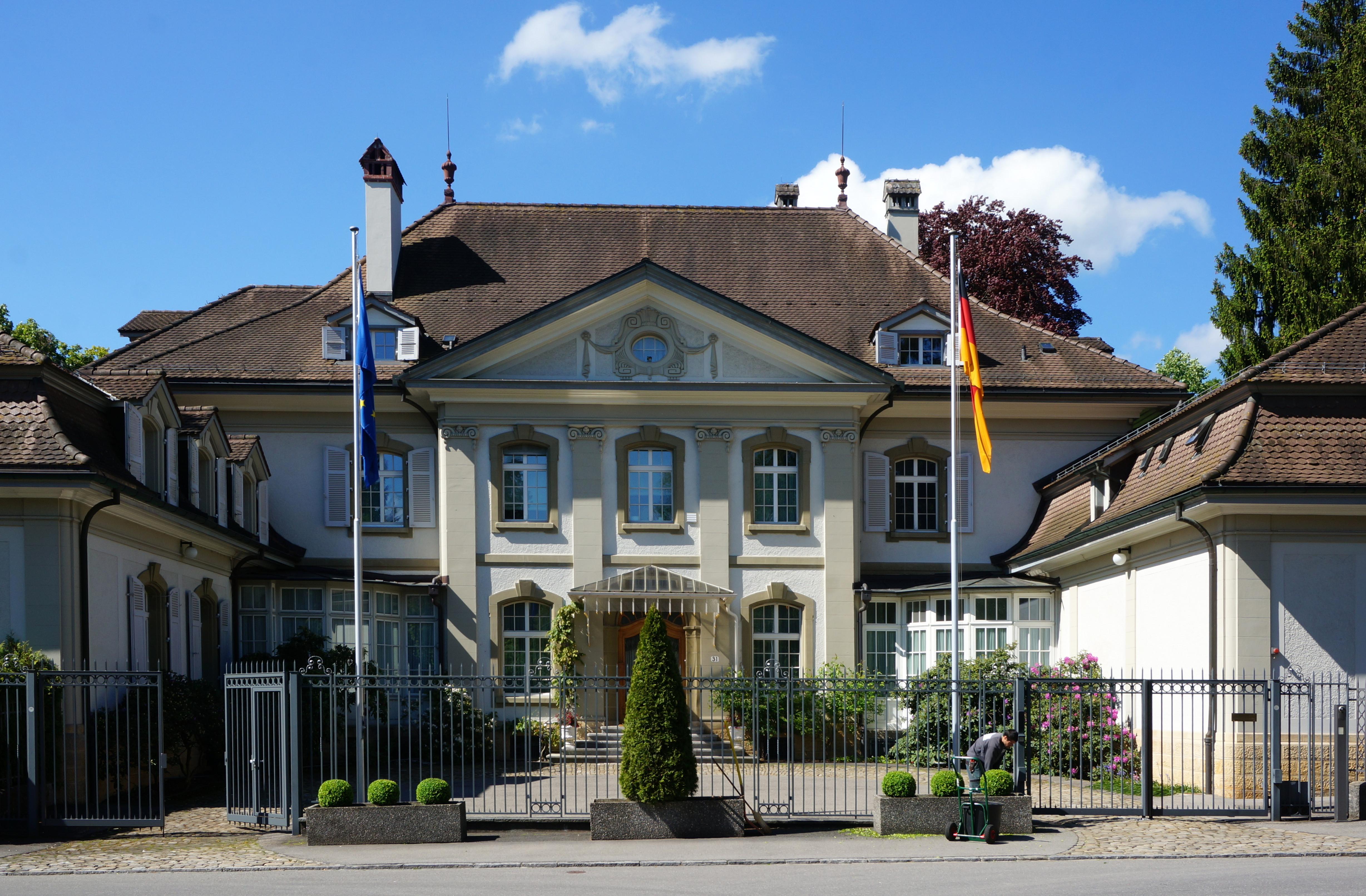 Bern, Brunnadernrain 31. German Embassy in Switzerland.